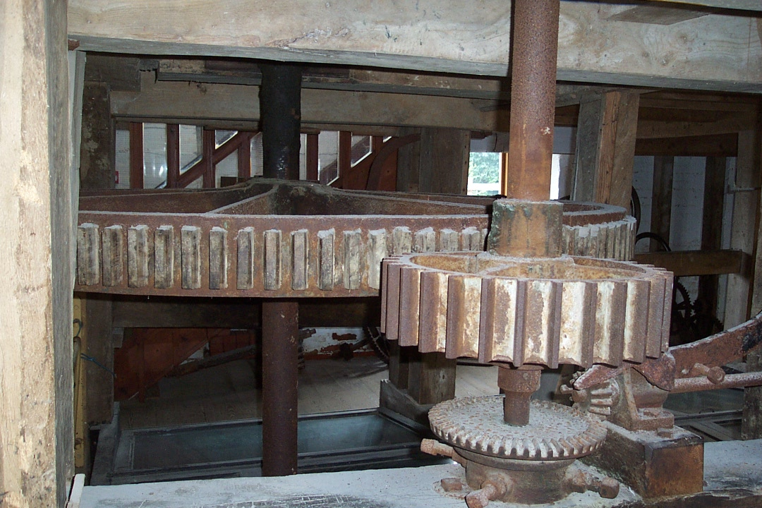 Eling Tide Mill has left one set of mill machinery unrestored as a static exhibit. This is detail from that set of machinery Picture taken by Fiddle Faddle